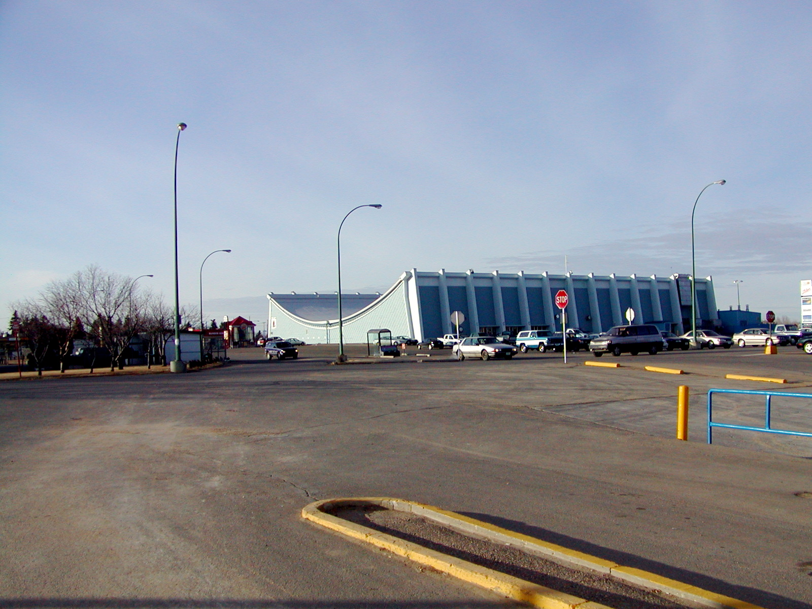 I took this picture when I was in Moose Jaw